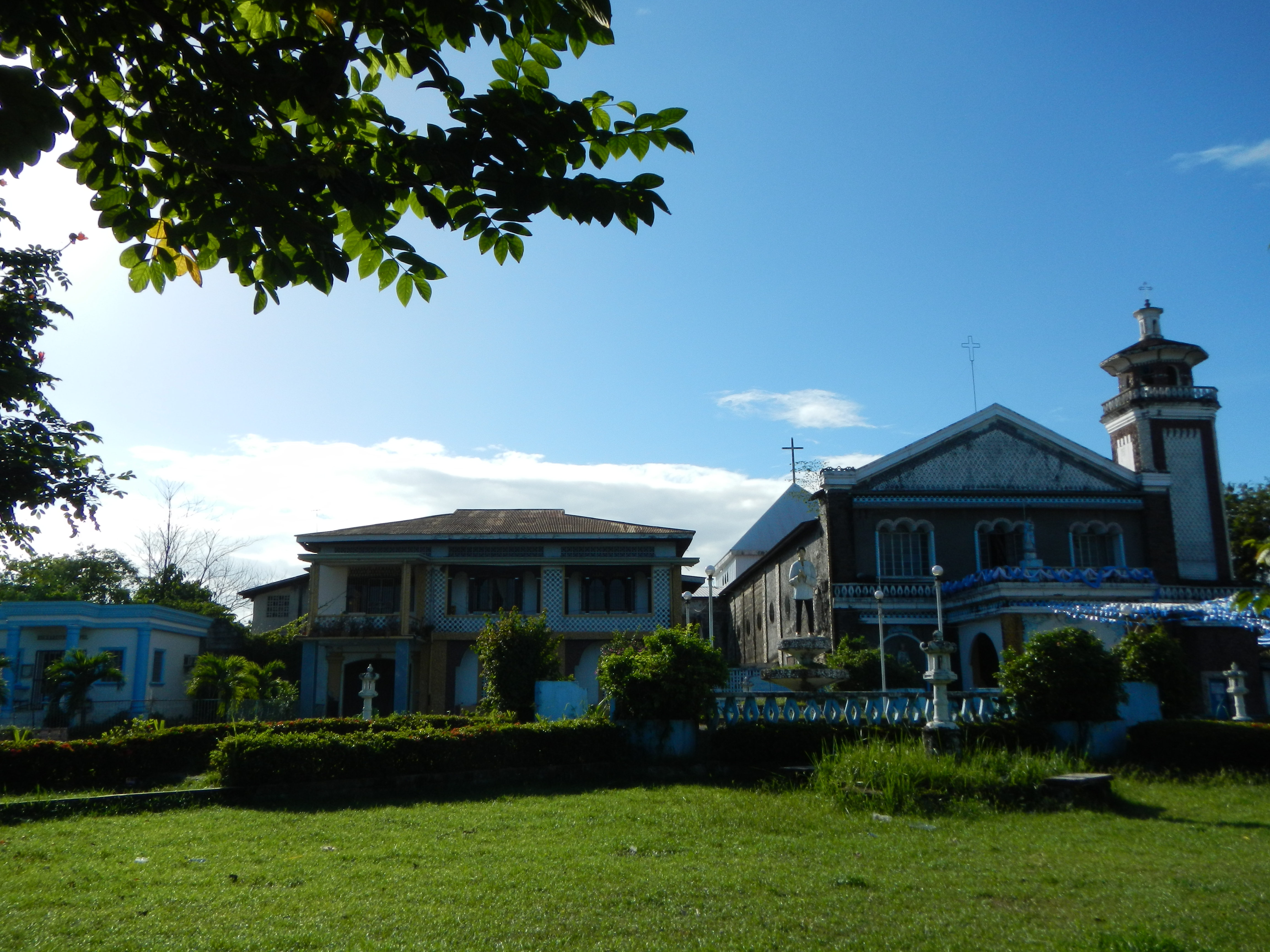 1771 Virgen del Pilar Parish - San Simon San Simon, Pampanga[1] 1771 Virgen del Pilar Parish - San Simon